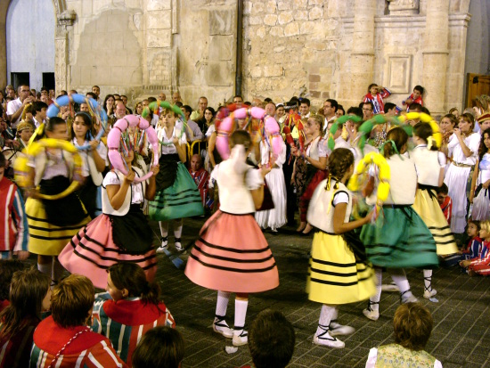 fifth folk troupe in the Virgin of Salut feasts performing their «arches dance» in front of Saint James church in Algemesí